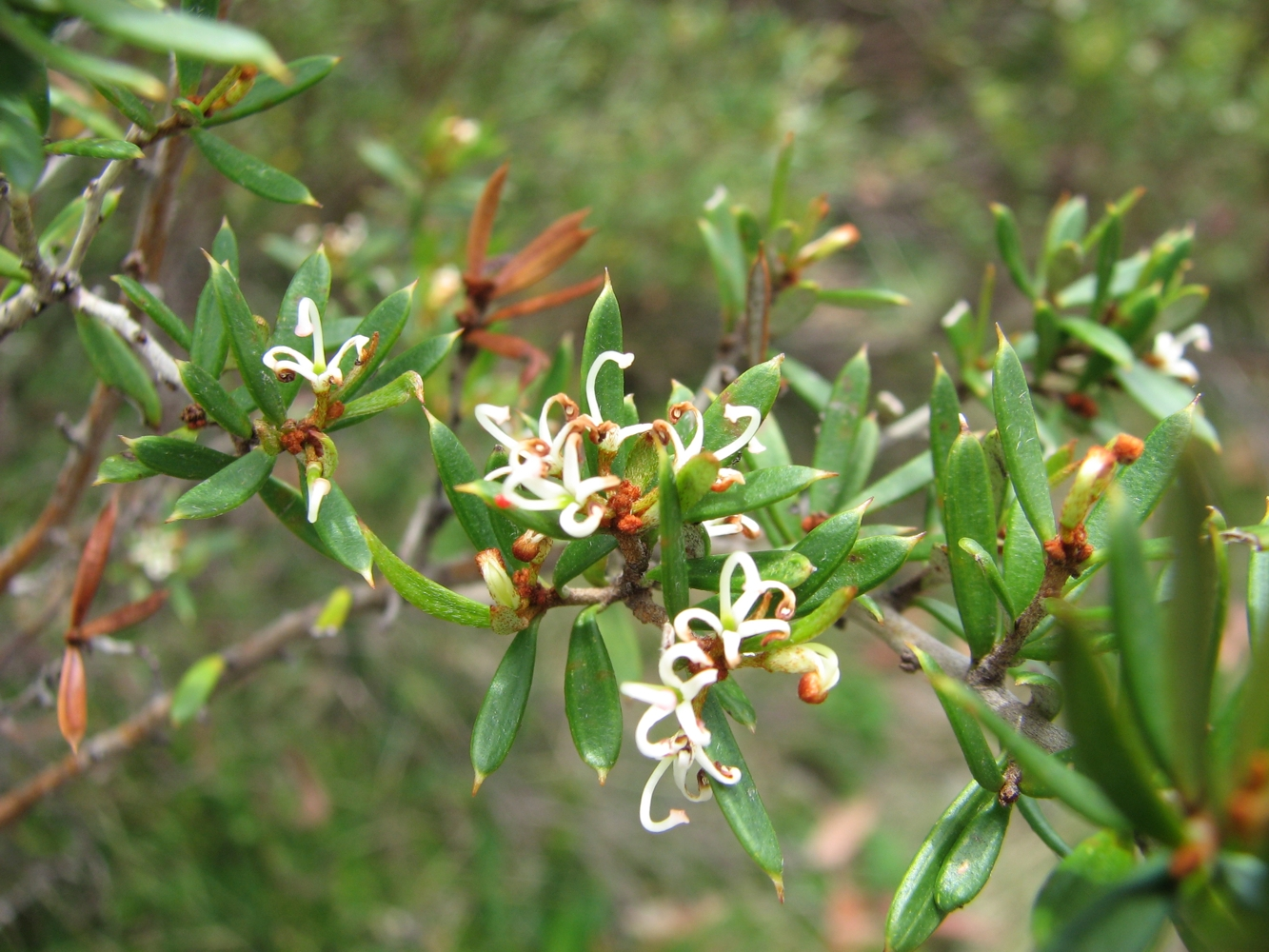 Grevillea australis Baw Baw National Park, Victoria, Australia